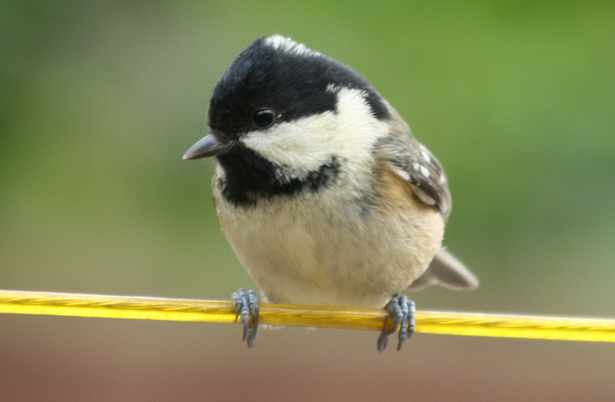 A coal tit sits on a cloths line.